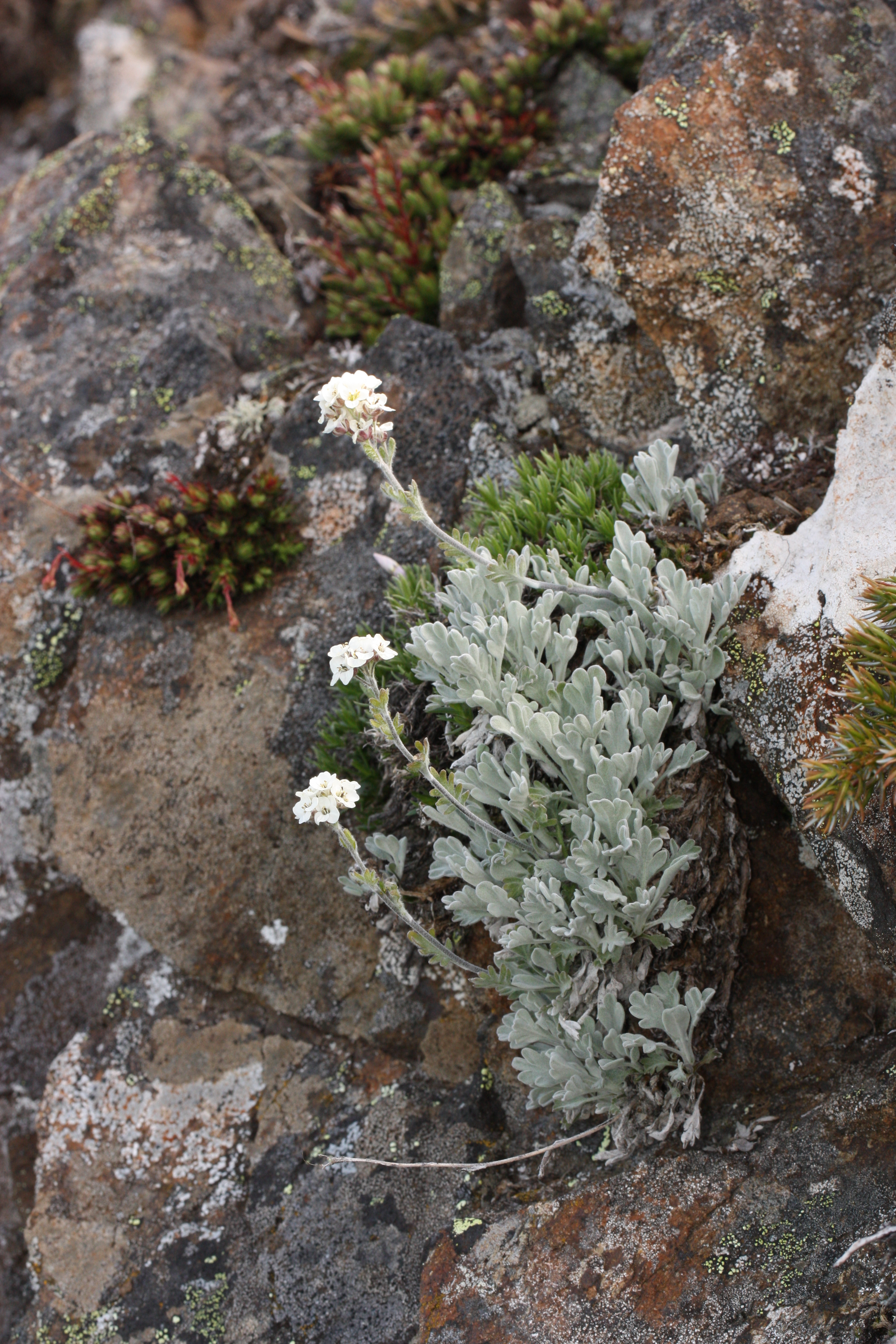 Alpine Smelowskia, Siberian Smelowskia Viewpoint location: Blue Mountain (6000+ feet, 1829+ m), north ridge, Olympic National Park Viewpoint elevation: 1758 meter (5769 ft) Location source: Garmin GPSmap 60CSx Location Datum: WGS84